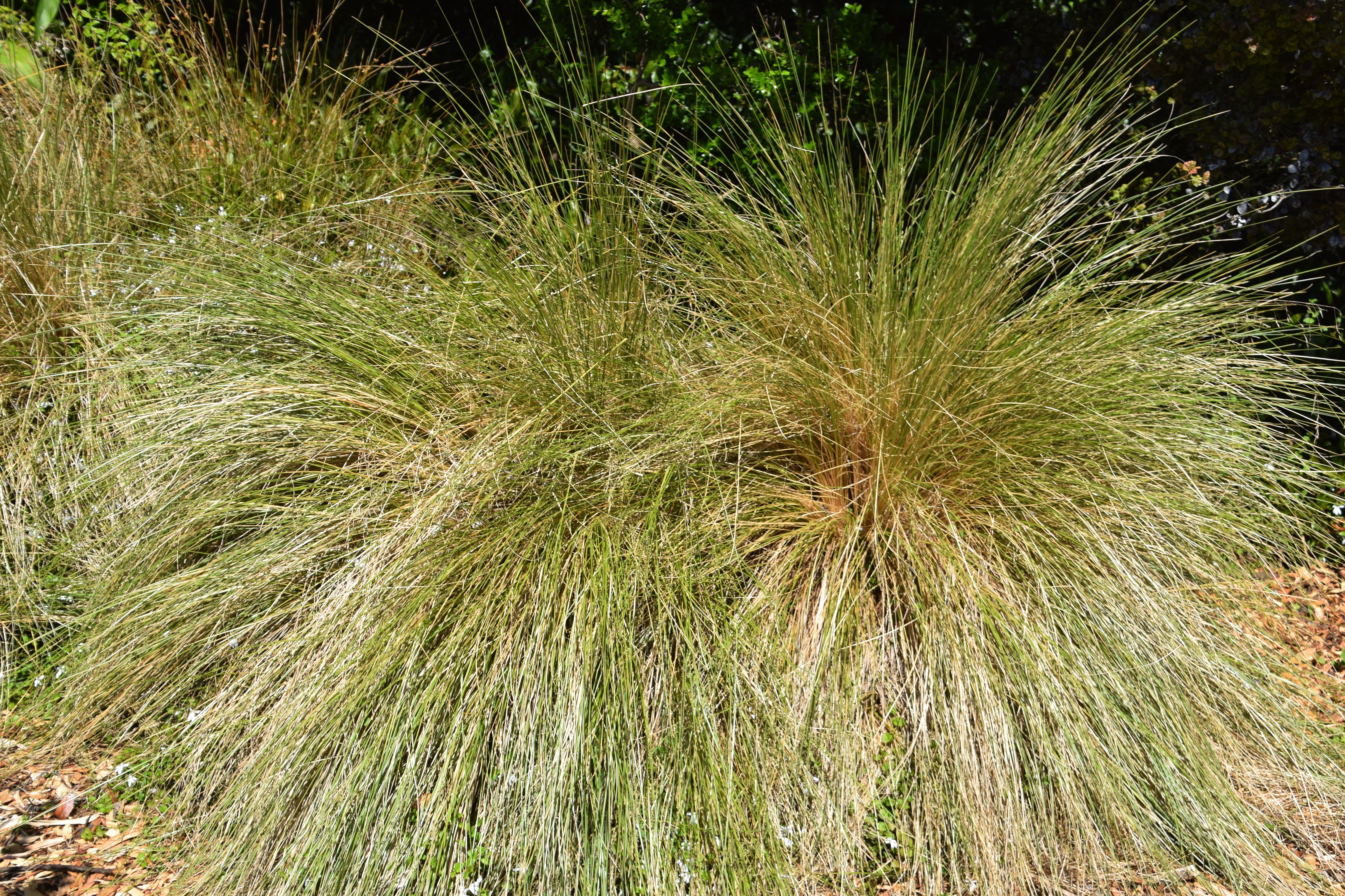 Poa cita in Dunedin Botanic Garden, Dunedin, New Zealand